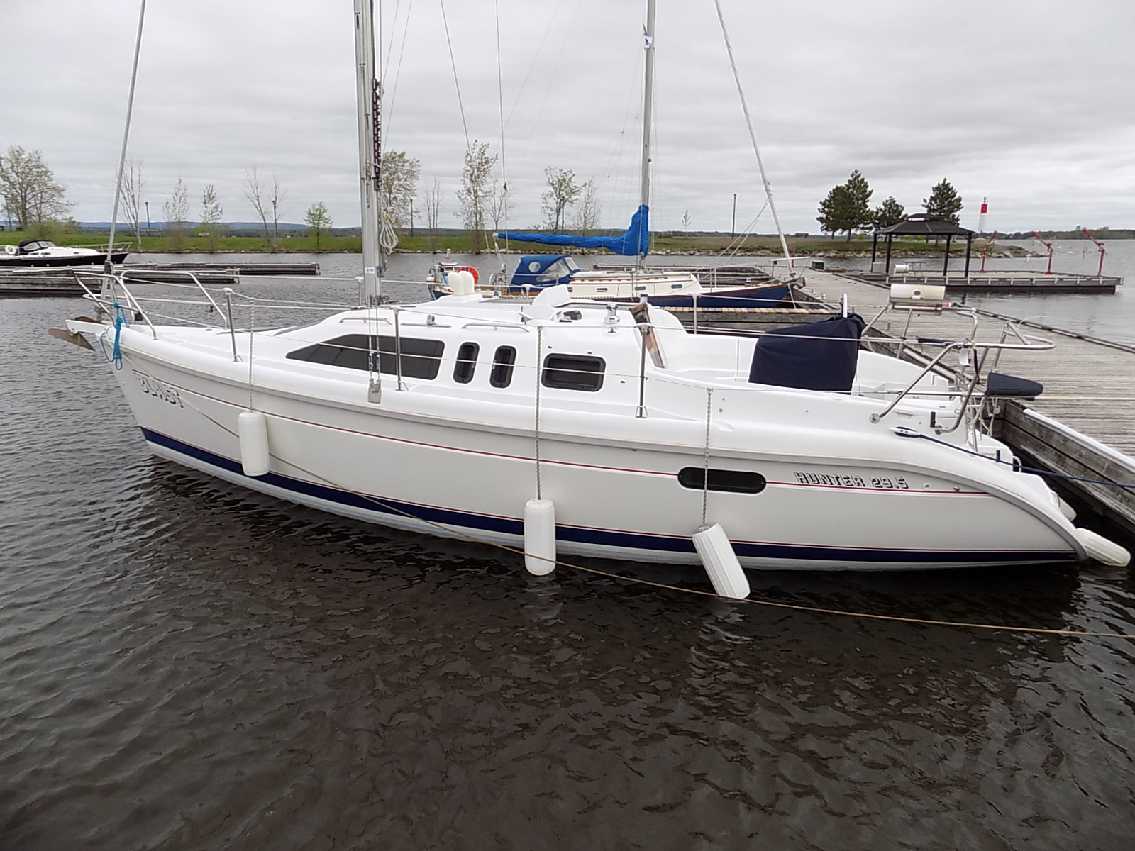 A Hunter 29.5 sailboat named Blast.